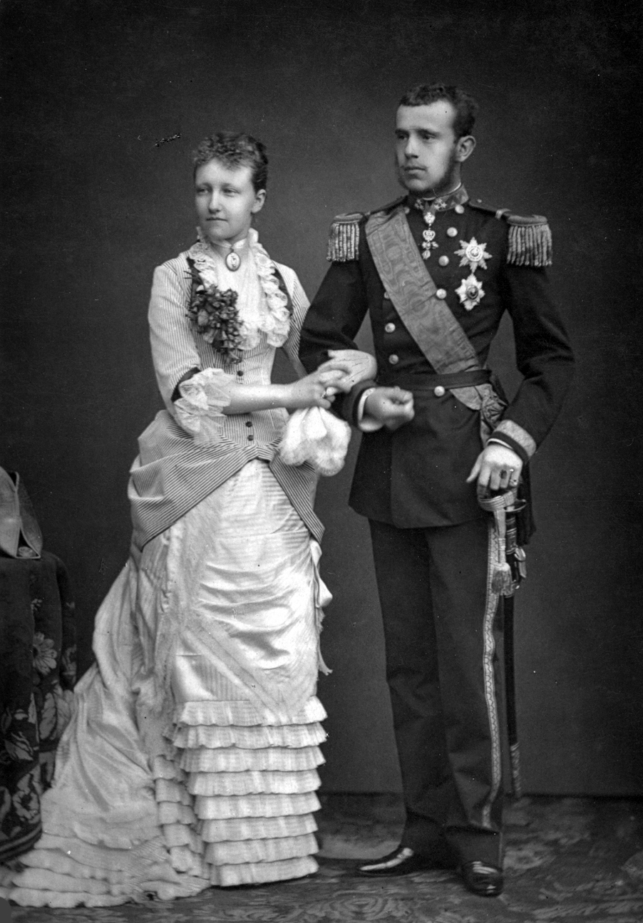 Crown Prince Rudolf of Austria-Hungary with Stefanie